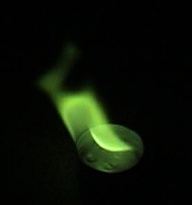 Grün brennendes Alkylborat.